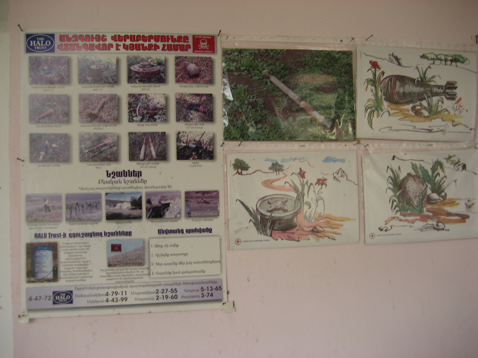 Wall at a school in Karabakh with photos of mines for children to avoid, and Halo Trust poster.